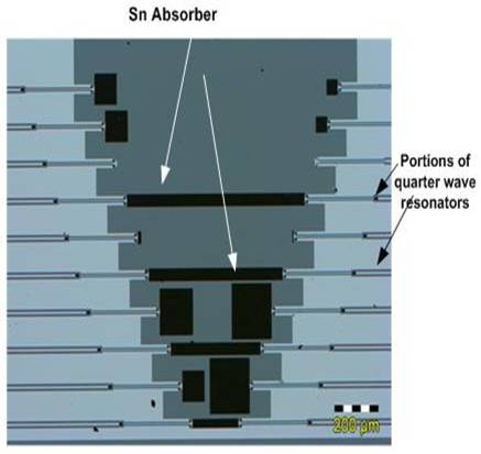 Image of aluminum kinetic inductance detectors (KIDs) with tin absorbers. Image credit: Argonne National Laboratory